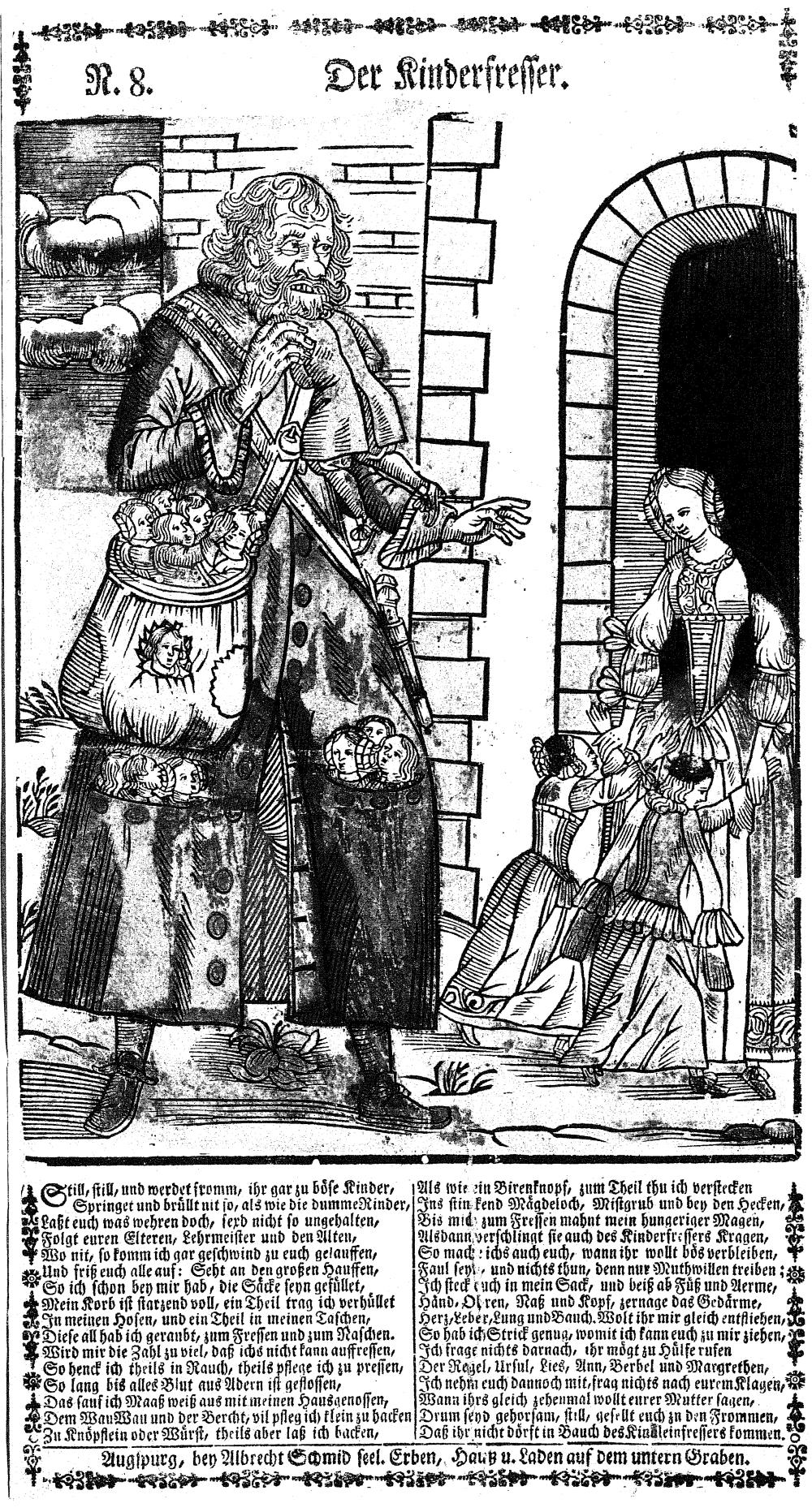 „Der Kinderfresser“ (the child eater), woodcut printed in Augsburg at Albrecht Schmid seel. Erben.